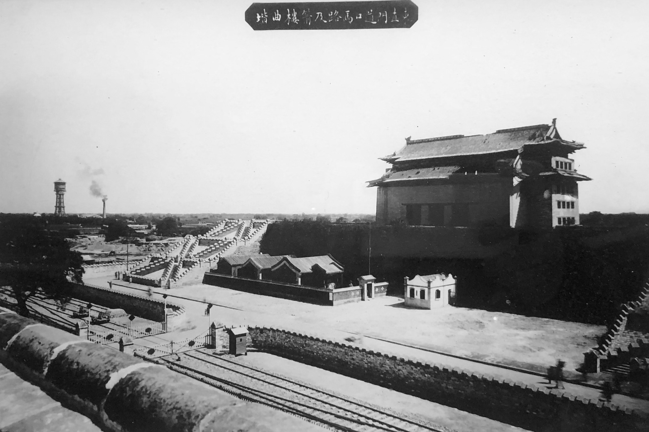 Dongzhimen Level Crossing Street and Qujie of Arrow Tower